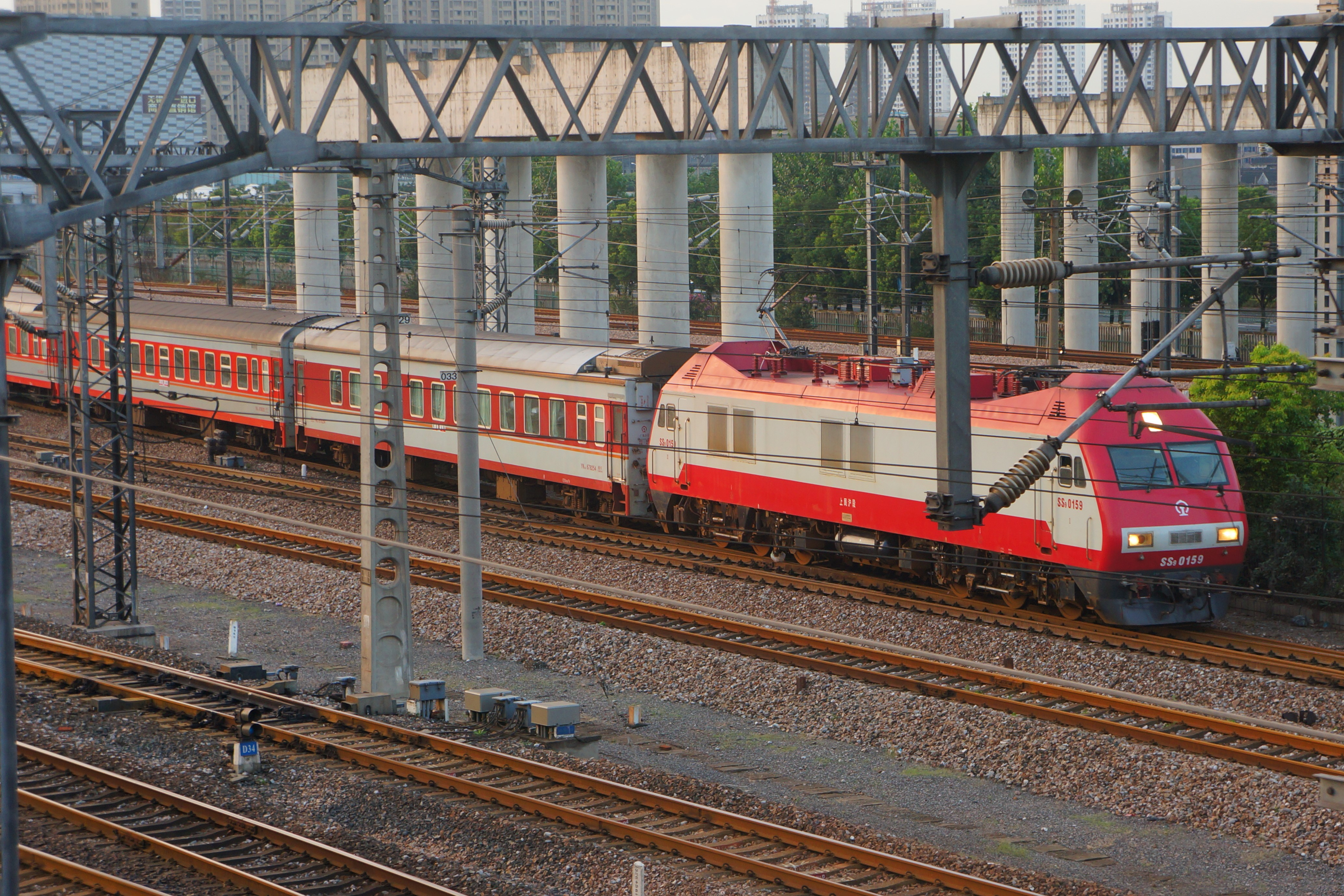 201508 SS9G-0159 hauls K807 departs from Wuxi Station